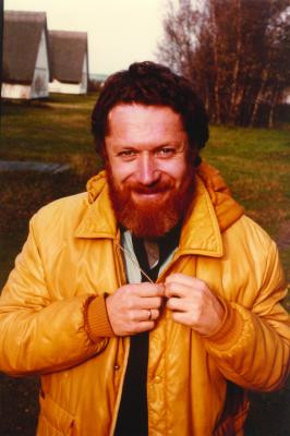 Leonid Bunimovic, Russian mathematician.